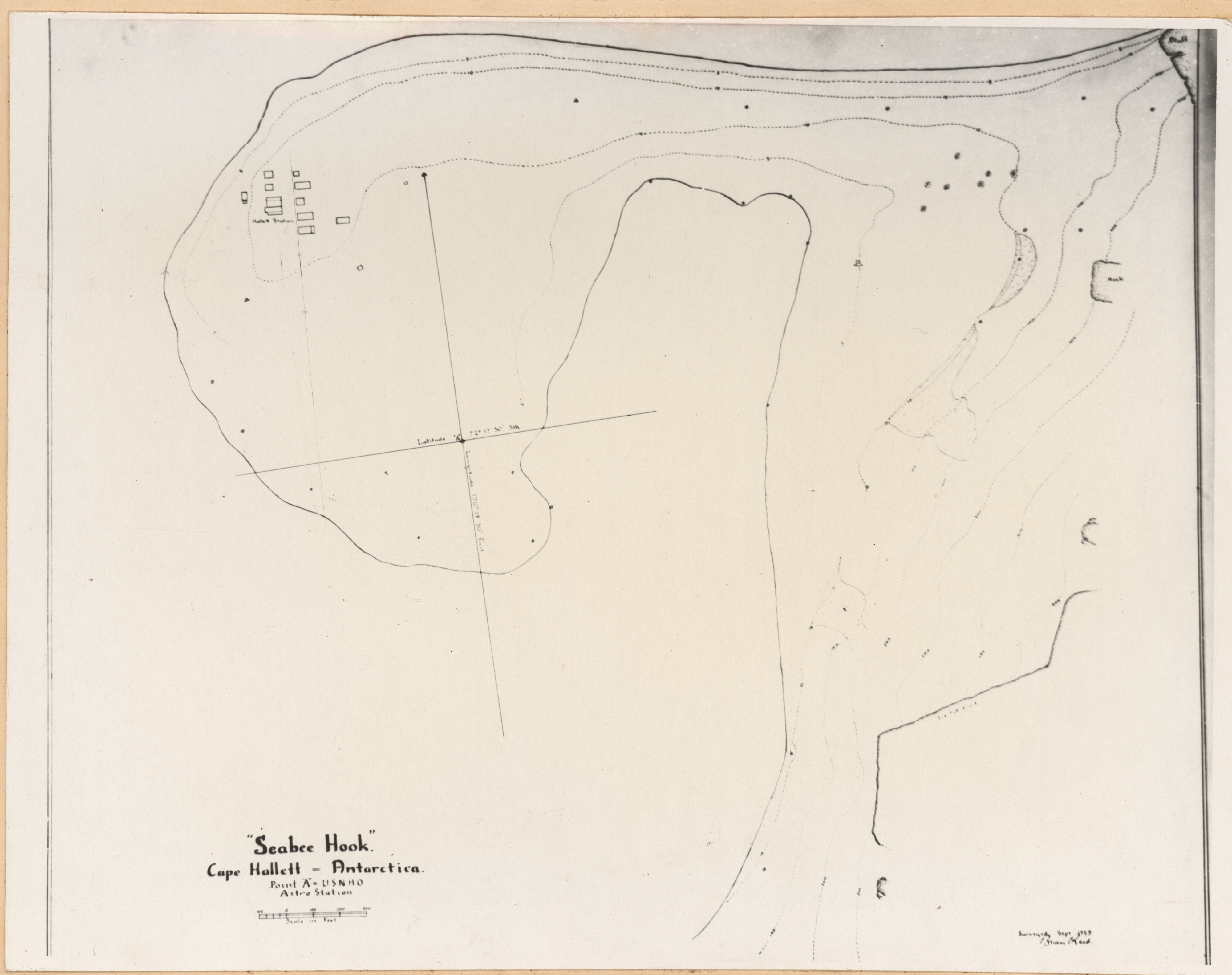 plan of Hallett Station near Cape Hallett, Victoria Land, Ross Dependency, East Antarctica